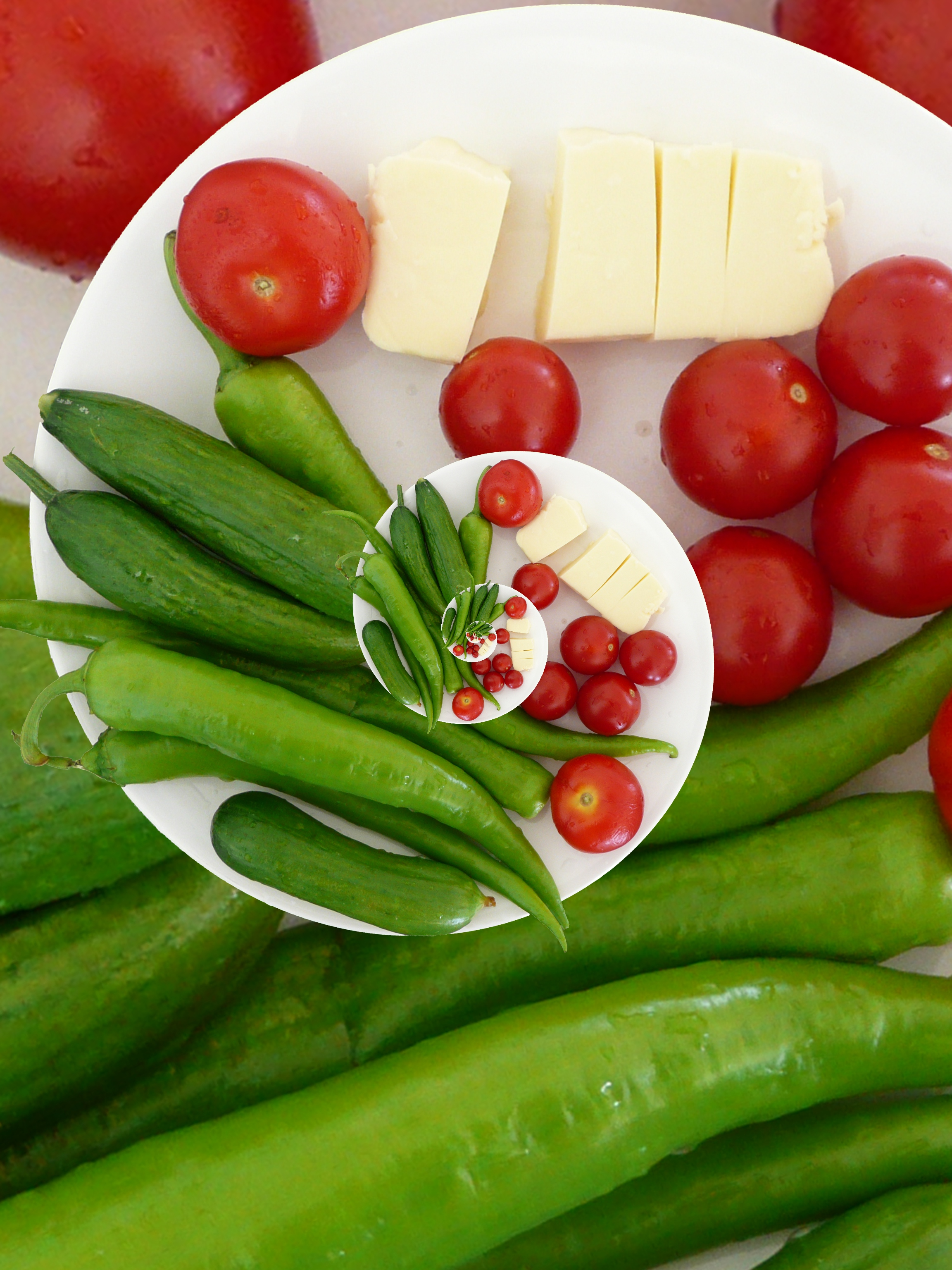 Vegetables. Droste effect